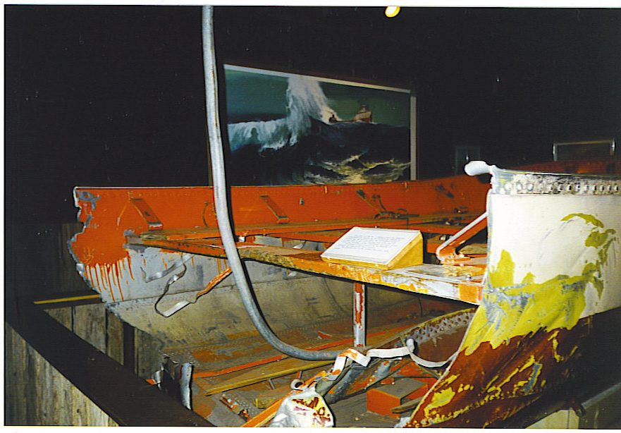 Edmund Fitzgerald lifeboat at Museum Steam Ship Valley Camp